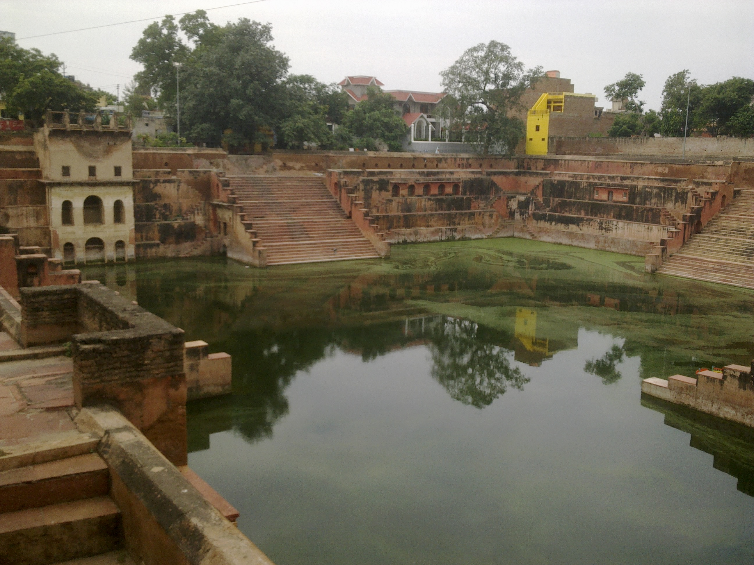 In this kund(pool) lord Krishna's childhood clothes(called potre) were washed.It is situated in the middle of the city of Mathura near Shri Krishna Janmsthan.